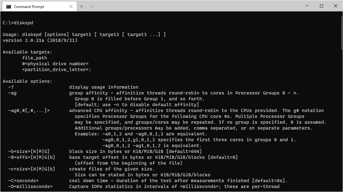 DiskSpd v2.0.21a